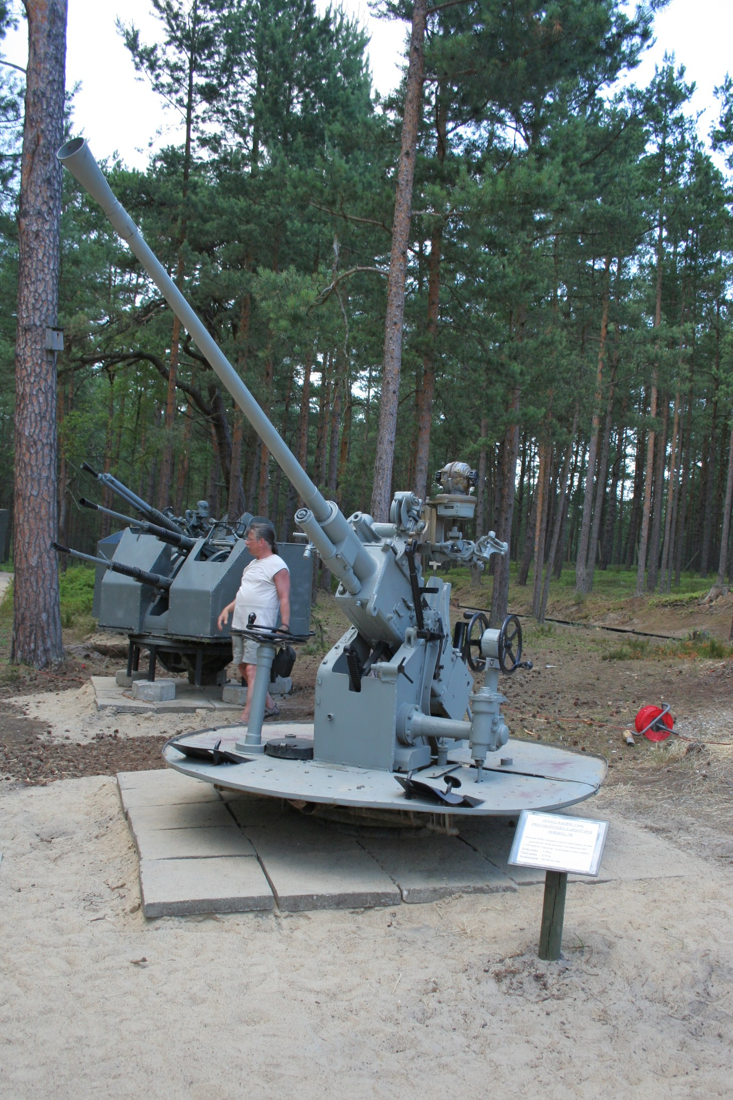 Outside exhibition in Museum of Coastal Defence (Soviet 37 mm gun?).